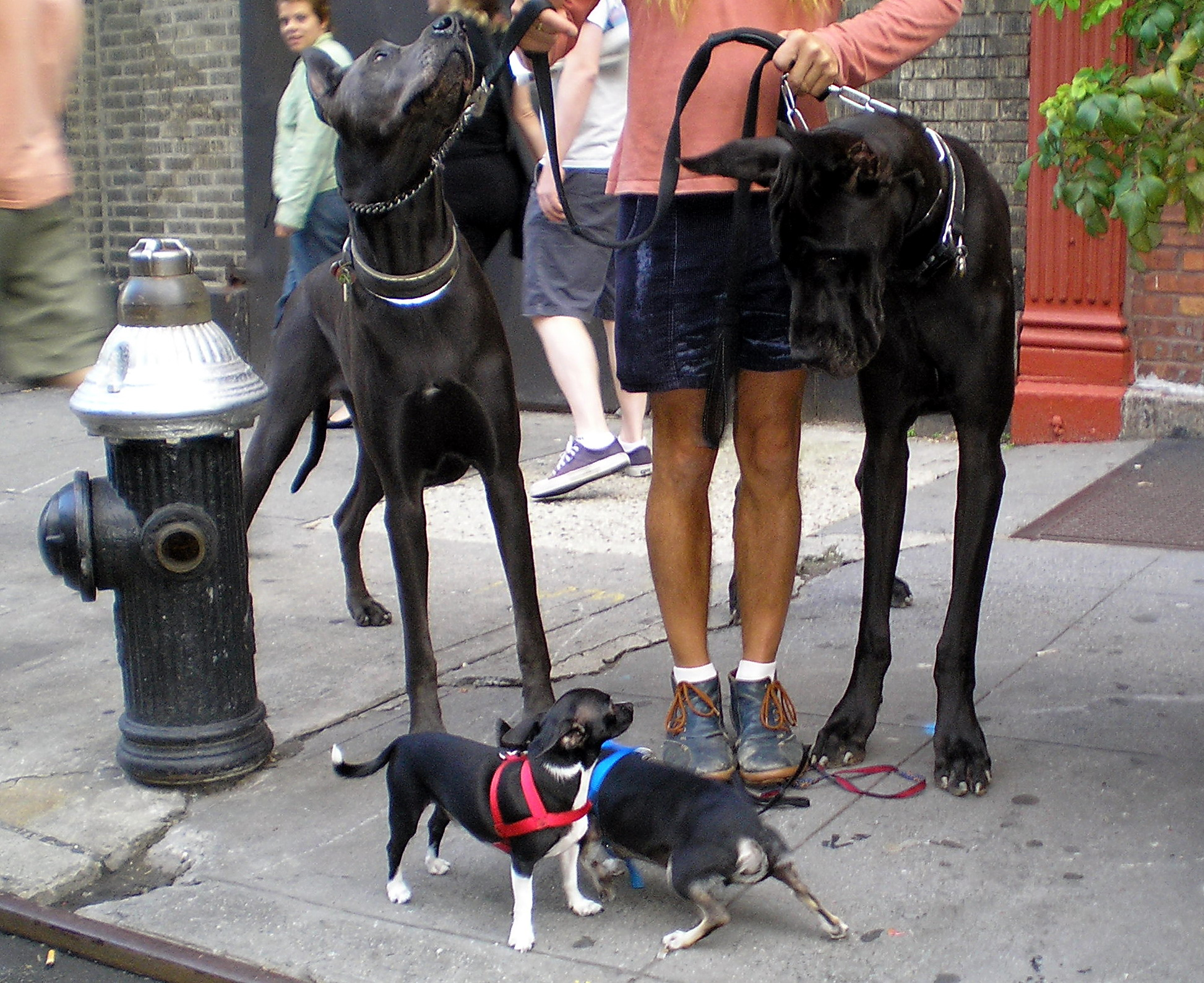 Great Danes and Chihuahuas by David Shankbone, New York City